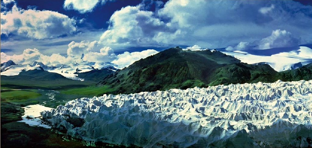 Tanggula Glacier — A source in the Tanggula Mountains of the Yangtze River (Chang Jiang), Qinghai province, southern China.